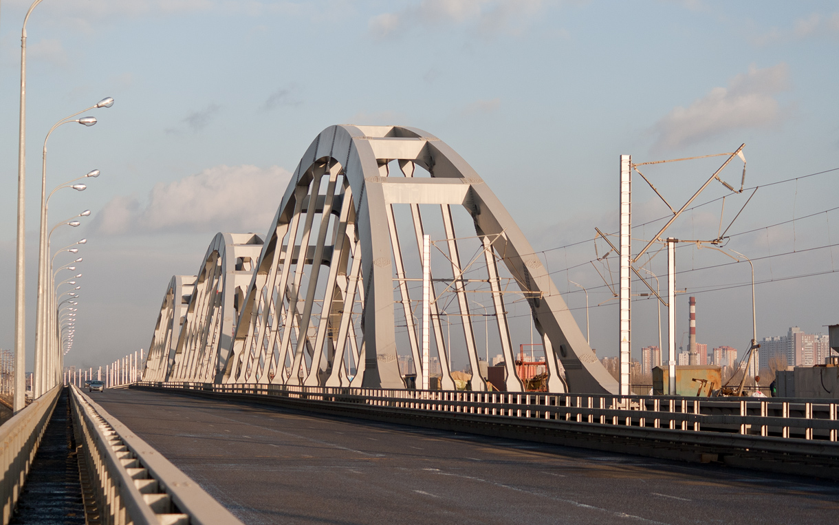 Дарницький міст. Лютий 2011 року. The NEW Darnytskyi auto-rail bridge in Kiev, not to be confused with the old, railroad-only Darnytskyi Bridge.